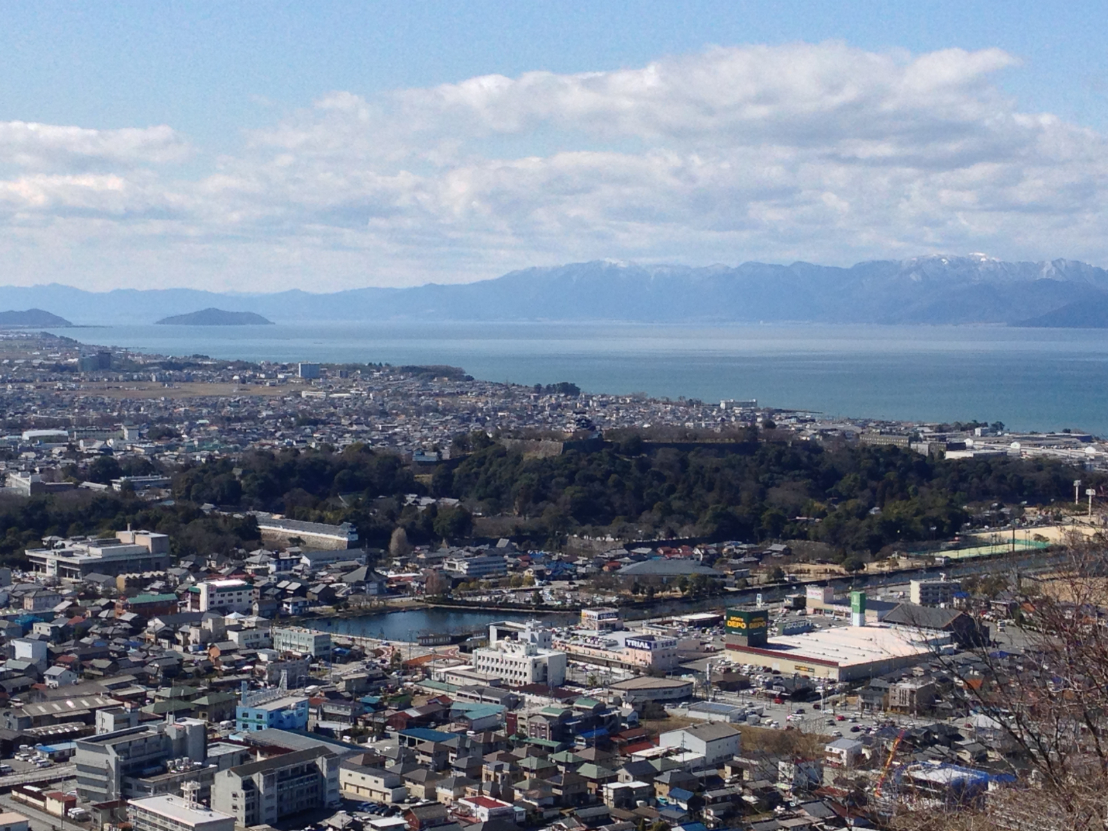 view of hikone-jo from sawayama-jo ruins